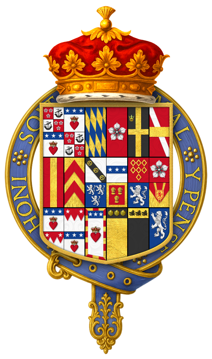 Coat of arms of James Hamilton, 4th Duke of Hamilton, KG